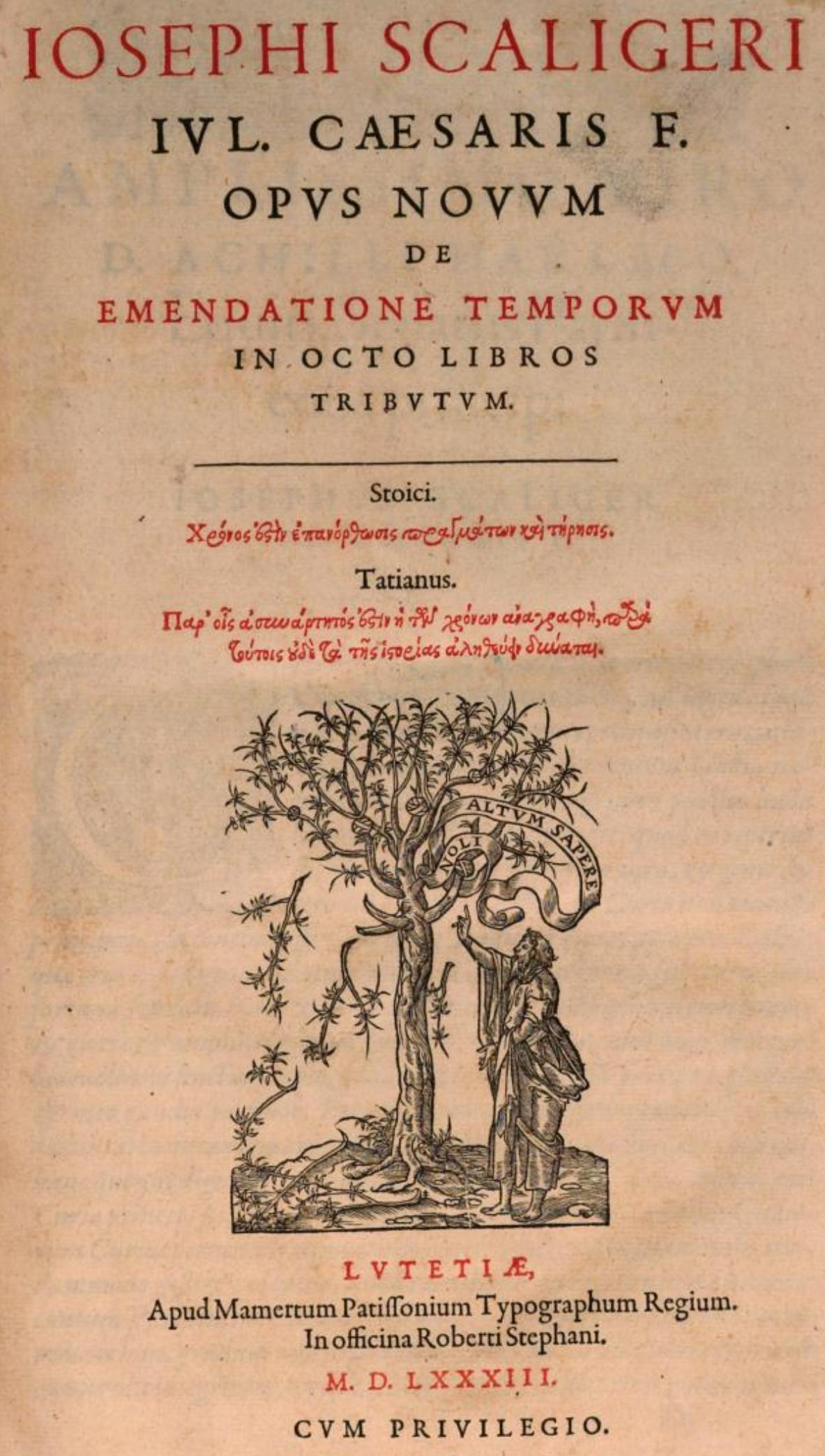 Joseph Justus Scaliger (1540–1609) Emendatione Temporum